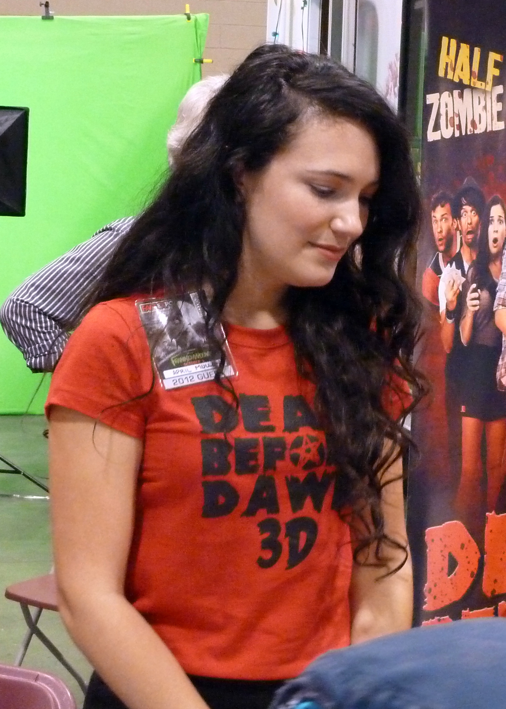 Fan Expo Canada in Toronto in 2012.